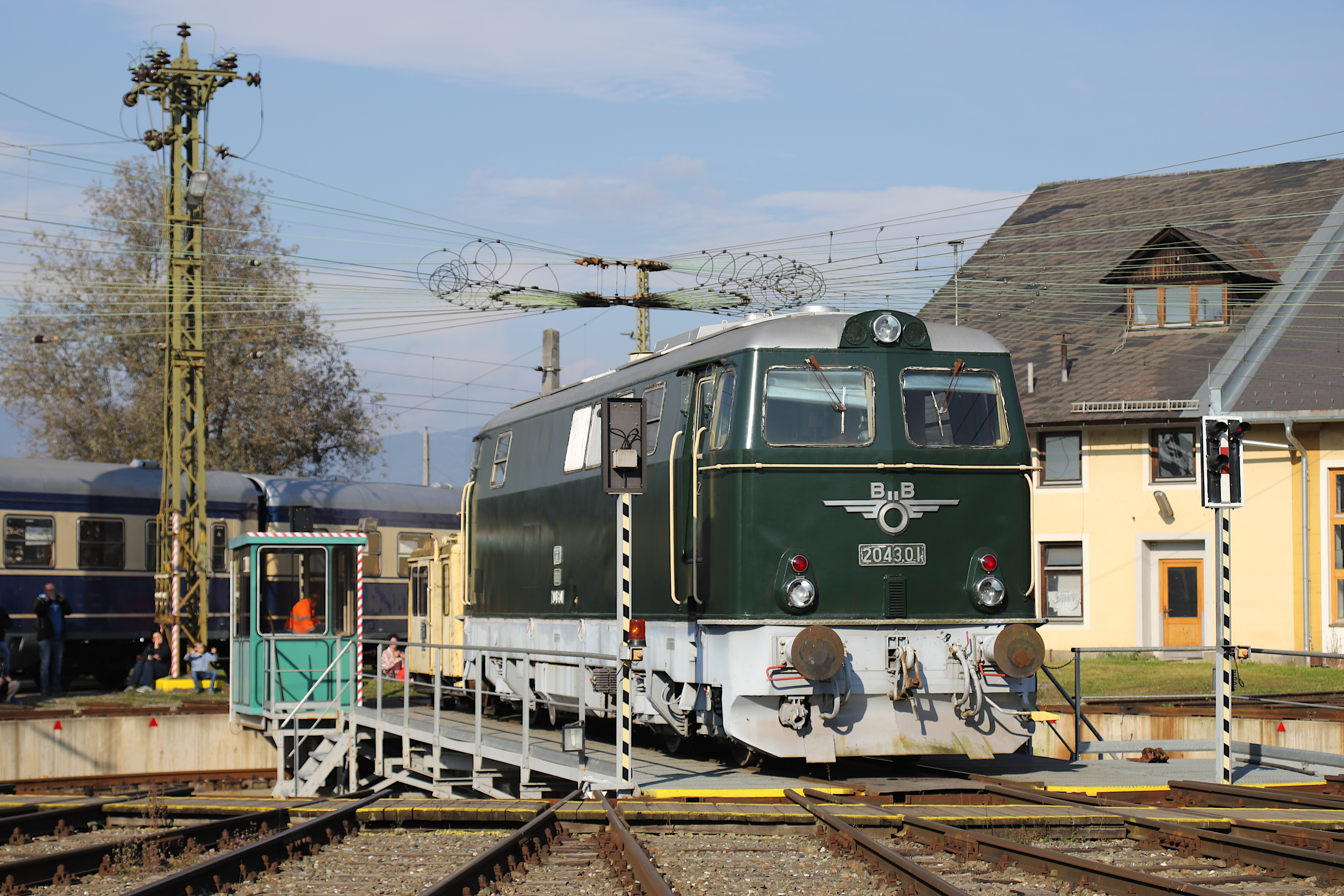 ÖBB 2043.01 on Knittelfeld turntable. This prototype engine was restored as a non-working showpiece, representing two historic color schemes. Here the original green livery with frames in light grey and roof in silver grey is shown.